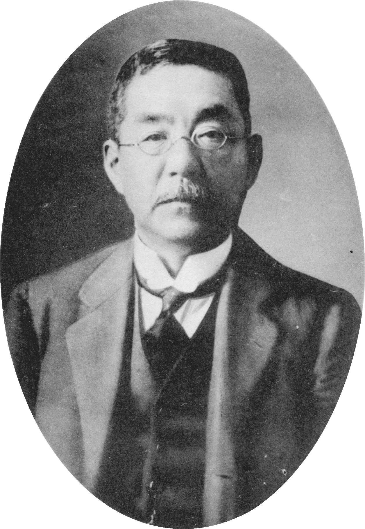 Seiichi Terano, Dean of the Faculty of Engineering at Imperial University of Tokyo.